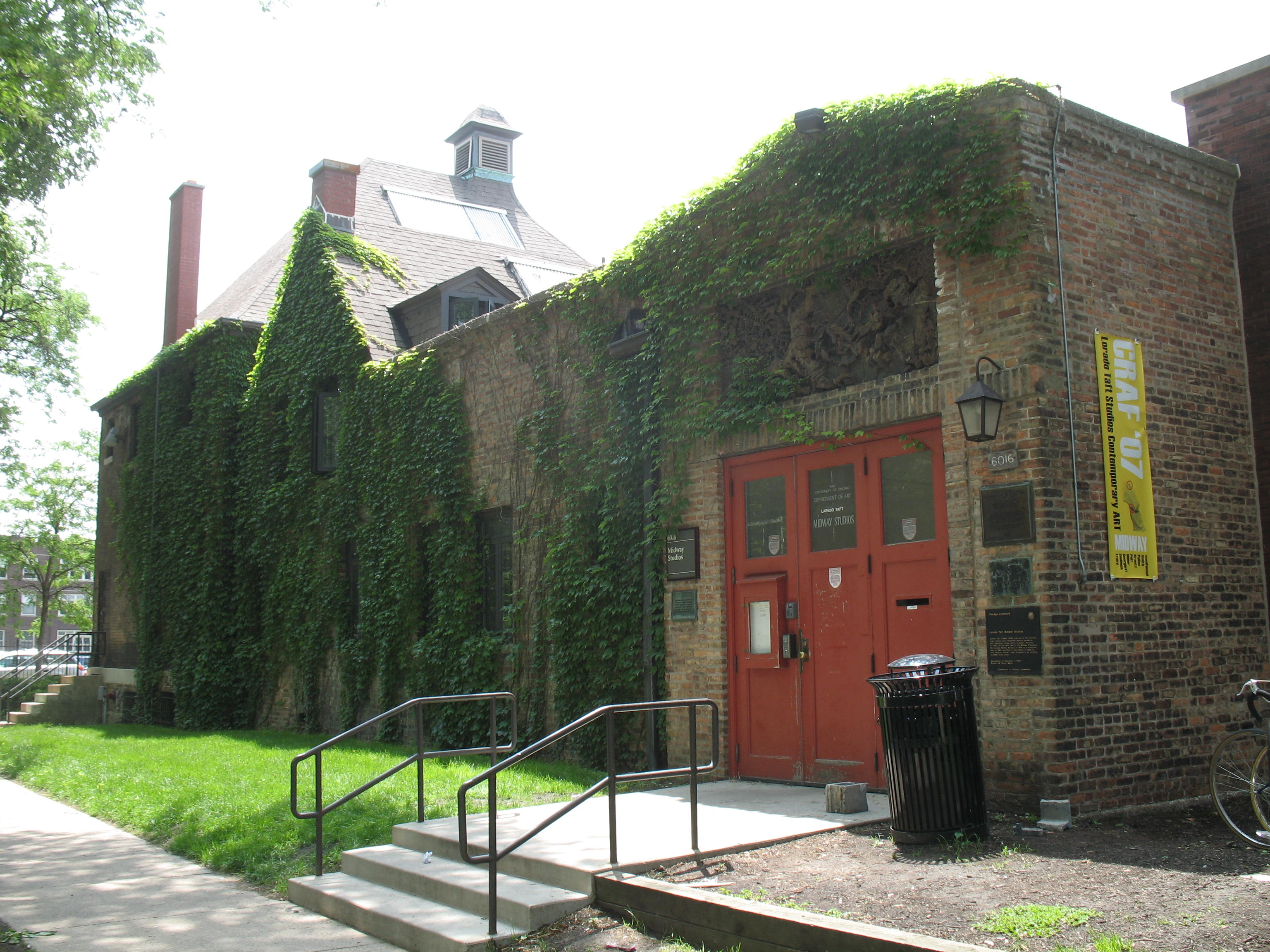 Lorado Taft Midway Studio, 6016 S Ingleside Avenue